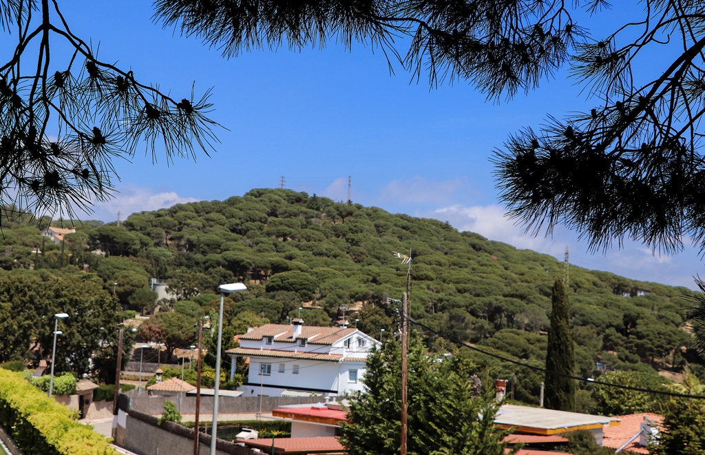 Turó d'en Dori vist des de la urbanització de Can Vilardell